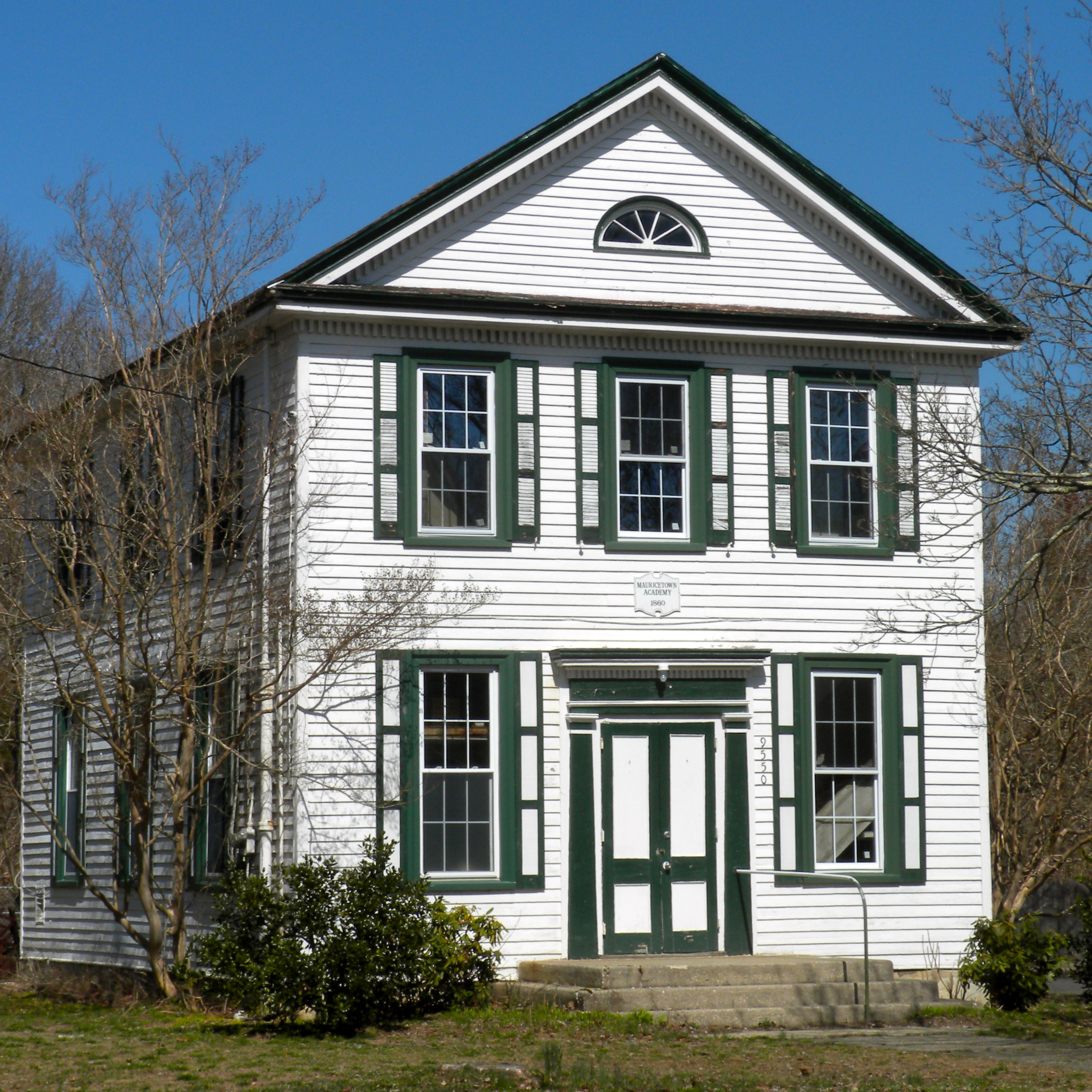 Mauricetown Academy building (former school) in Mauricetown, New Jersey, in Cumberland County, on the Maurice River. A small town of roughly 200 buildings - many historically and architecturally significant.